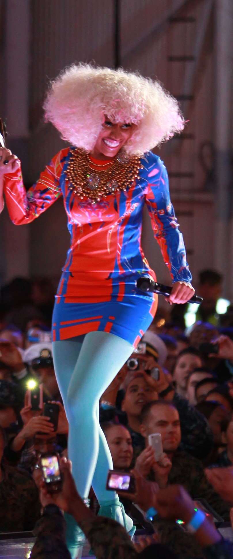 Katy Perry (left) and Nicki Minaj performs for service members during the 2010 VH1 Divas Salute the Troops concert at Marine Corps Air Station Miramar, Dec. 3. Other performances included Heart, Keri Hilson, Sugarland, Grace Potter and the Nocturals, and Kathy Griffin.